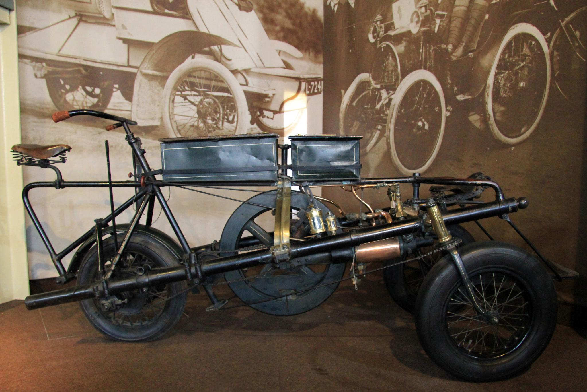 1896 Pennington Autocar British Edward Joel Pennington was a company promoter and charlatan par excellence. It is likely that he made only five Autocars, of which this is the only survivor in the world. It was claimed that it could carry nine people and was capable of 40mph. Advertising drawings show an earlier two-wheeled model leaping a ravine. The tyres were supposed to be unpuncturable, a great plus in 1896, if true. Cylinders: 2 Capacity: 1868cc Maximum Speed: 40mph (claimed) Price New: £157 Manufacturer: Great Horseless Carriage Company Limited, Coventry Owner: Richard and Mary Nash Housing a collection of over 250 automobiles and motorcycles telling the story of motoring on the roads of Britain from the dawn of motoring to the present day, the award winning (Winner - The International Historic Motoring Awards of the Year 2012) National Motor Museum appeals to all age groups. From World Land Speed Record Breakers including Campbell’s famous Bluebird to film favourites such as the magical flying car, Chitty Chitty Bang Bang and rare oddities like the giant orange on wheels. Don’t miss exciting extra features such as the Motorsport Gallery, Wheels and Jack Tucker's Garage - A permanent, multi award-winning 1930's garage has been created within the Museum, complete down to the last nut and bolt and rusty drainpipe. Whilst the building is a complete fabrication, everything in it - all the fixtures, fittings, tools and ephemera - are genuine artefacts collected over a period of 25 years.